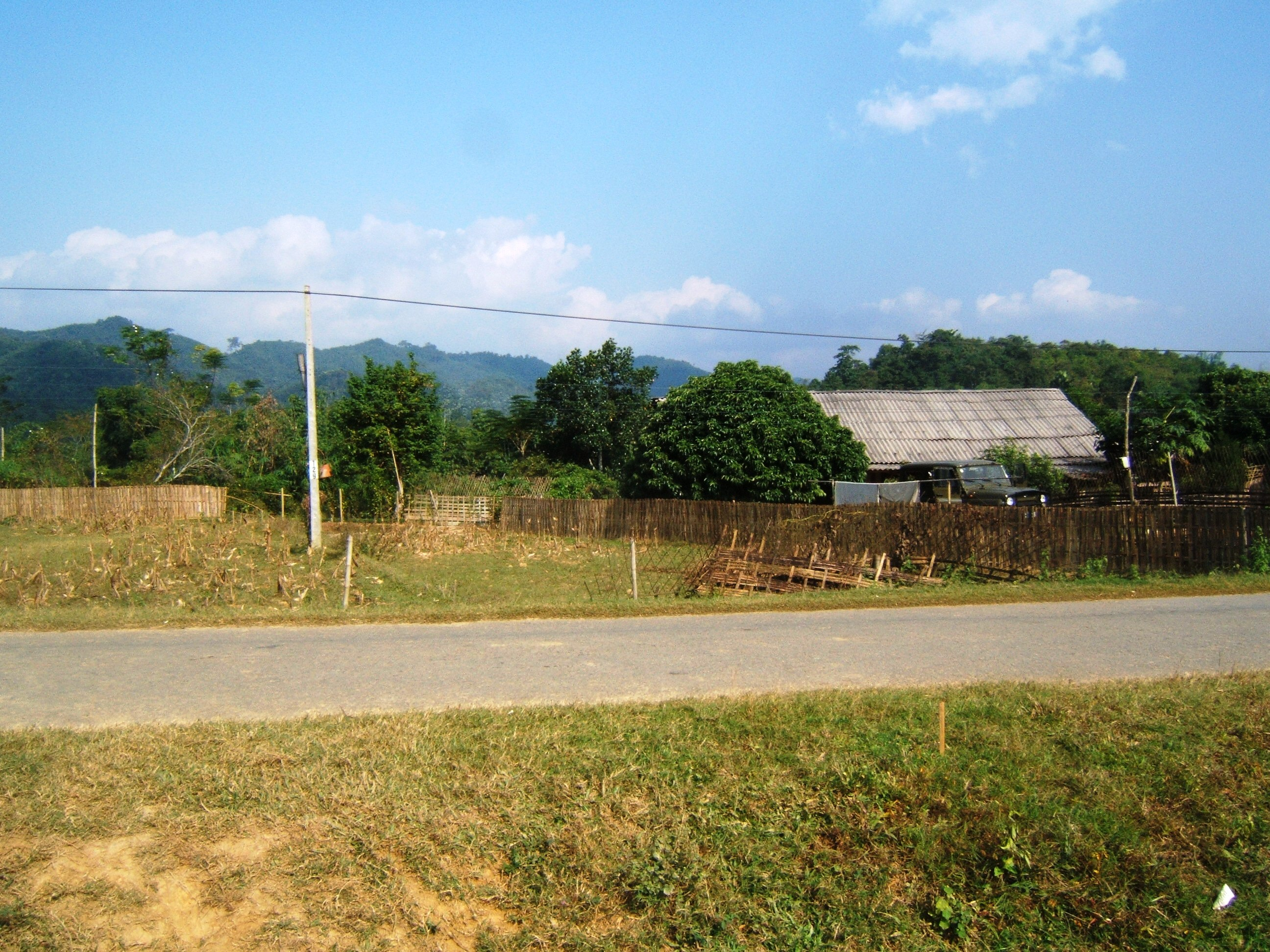 Road 279 in Lien Hiep commune, Bac Quang district, Ha Giang province, Vietnam